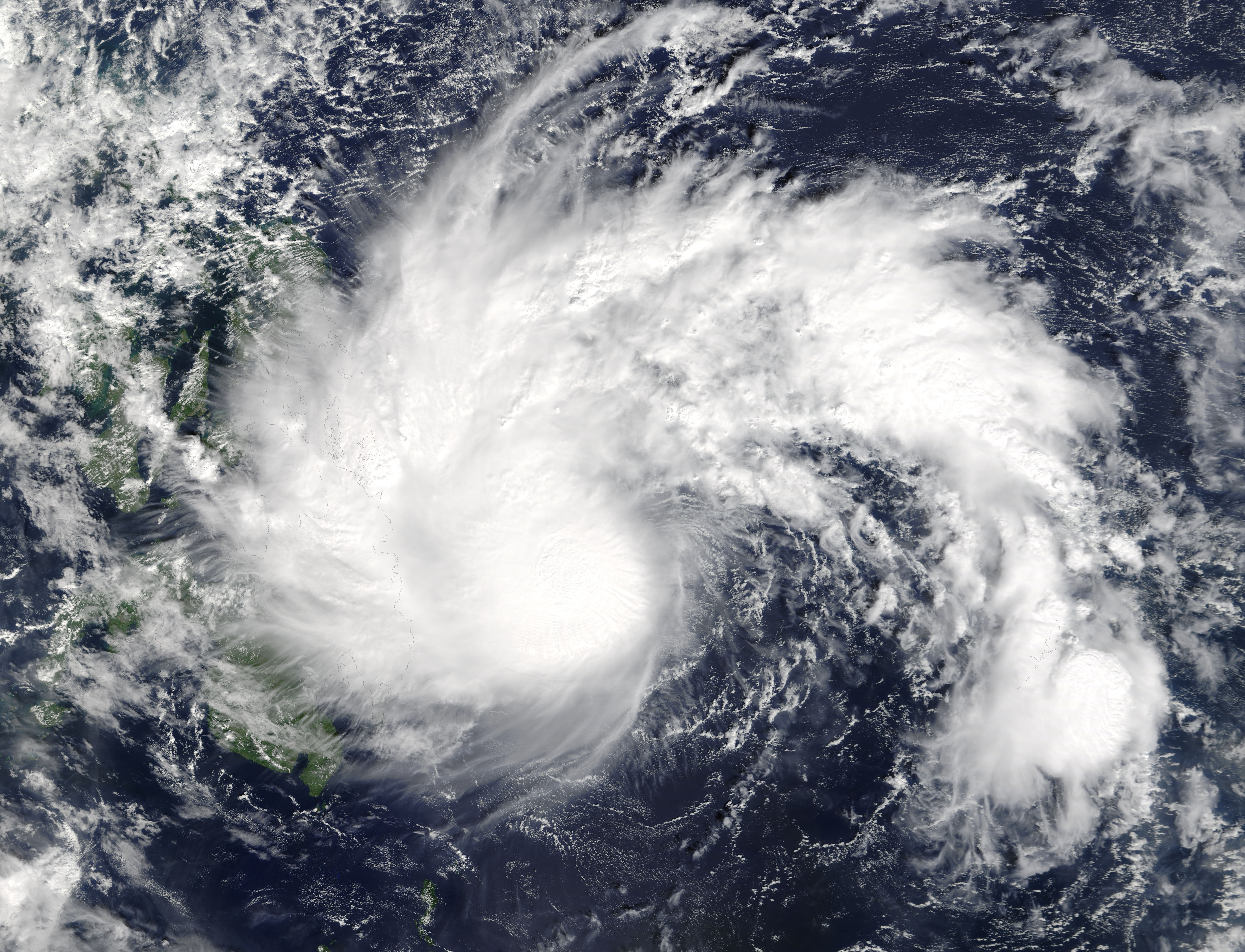 Tropical Storm Tembin (33W) over the Philippines